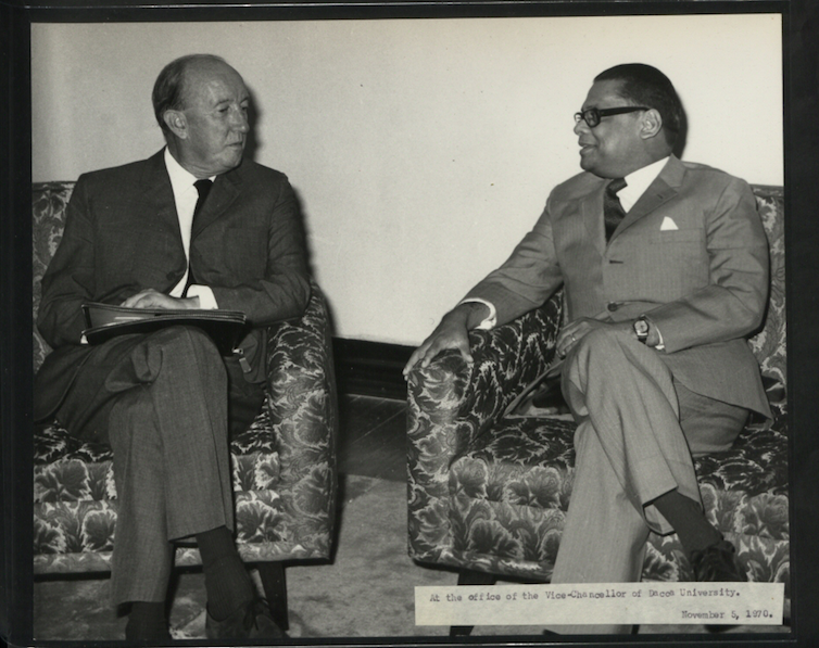 Lord James, leader of the British Educational Survey Team at the office of the Vice-Chancellor of Dacca University.